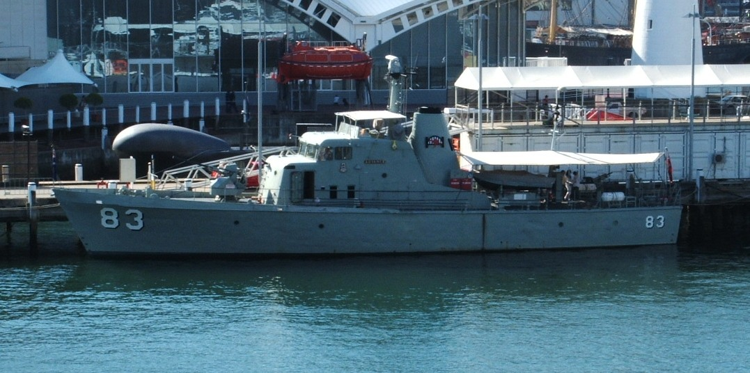 Image of HMAS Advance, a patrol boat currently docked as an exhibit at the Australian National Maritime Museum at Darling Harbour, Australia.